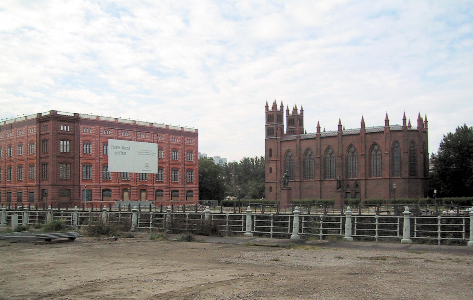 Schinkelsche Bauakademie (schinkel's architecture academy) and Friedrichswerdersche Kirche in Berlin